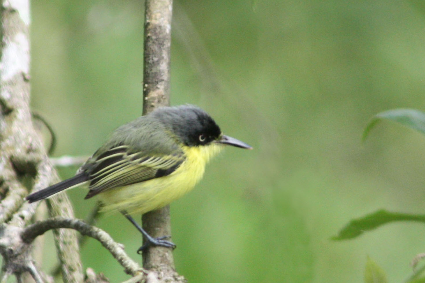 Common tody-flycatcher (Todirostrum cinereum) in the gardens of the Arenal Nayara Hotel, Costa Rica